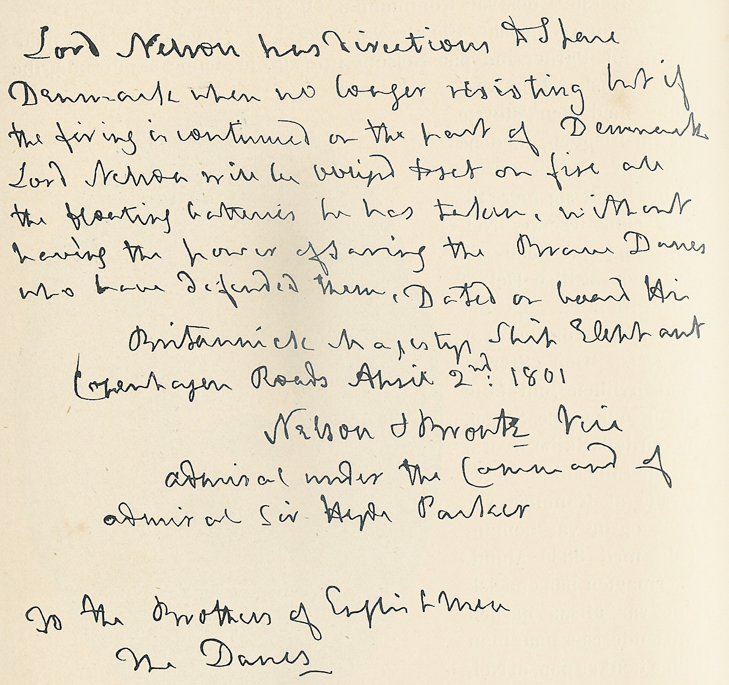 Nelson's first letter to the Danish government during the Battle of Copenhagen 1801.